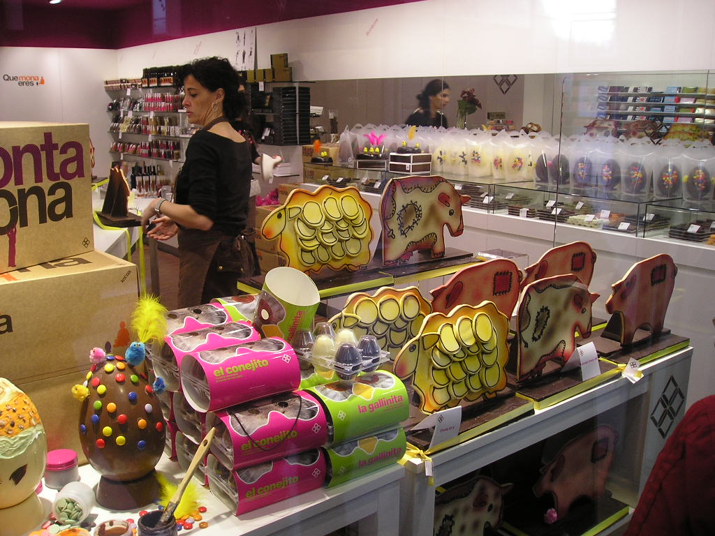 Aparador amb mones de xocolata al carrer del Pi de Barcelona.